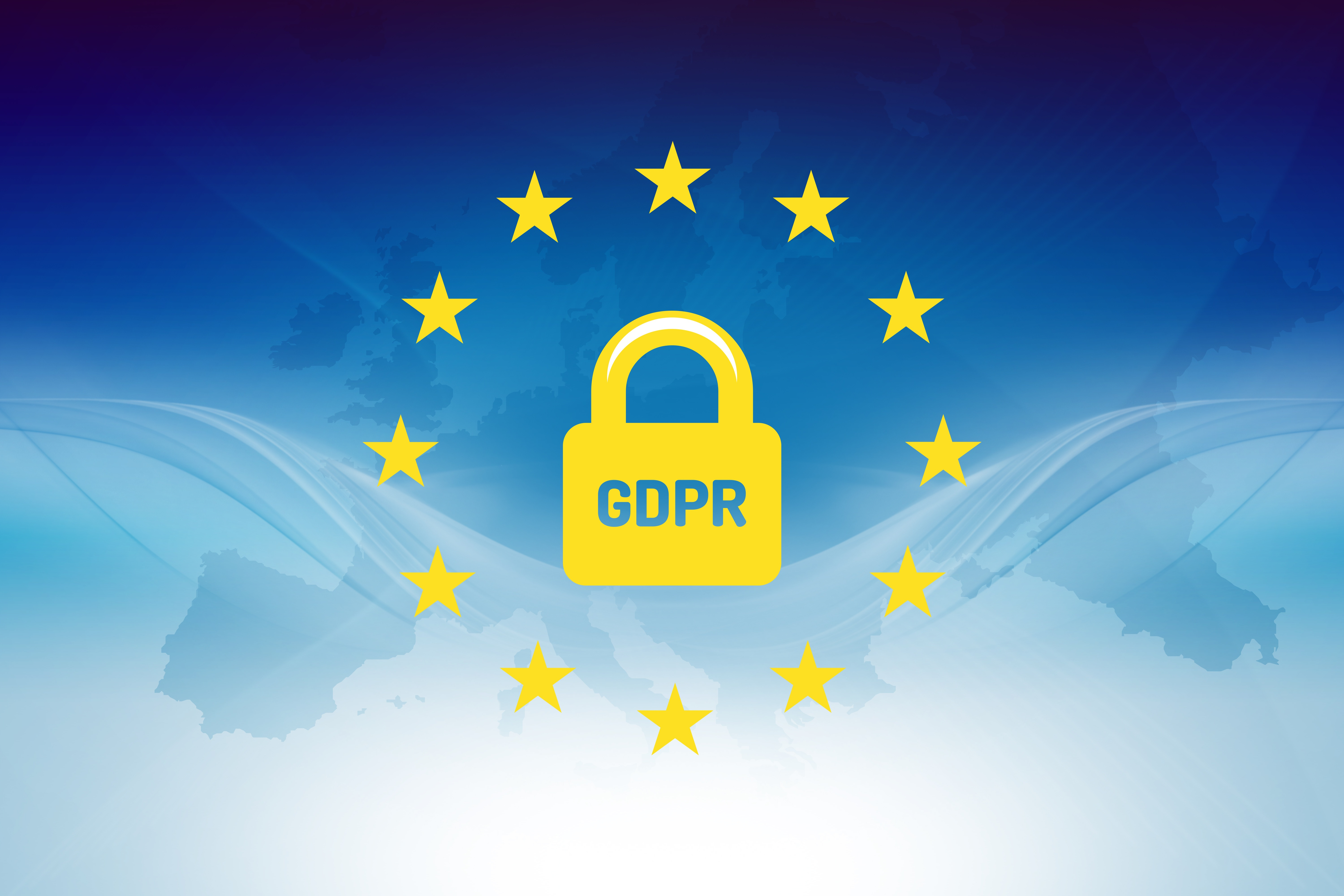 Symbol for General Data Protection Regulation (GDPR) in Europe.